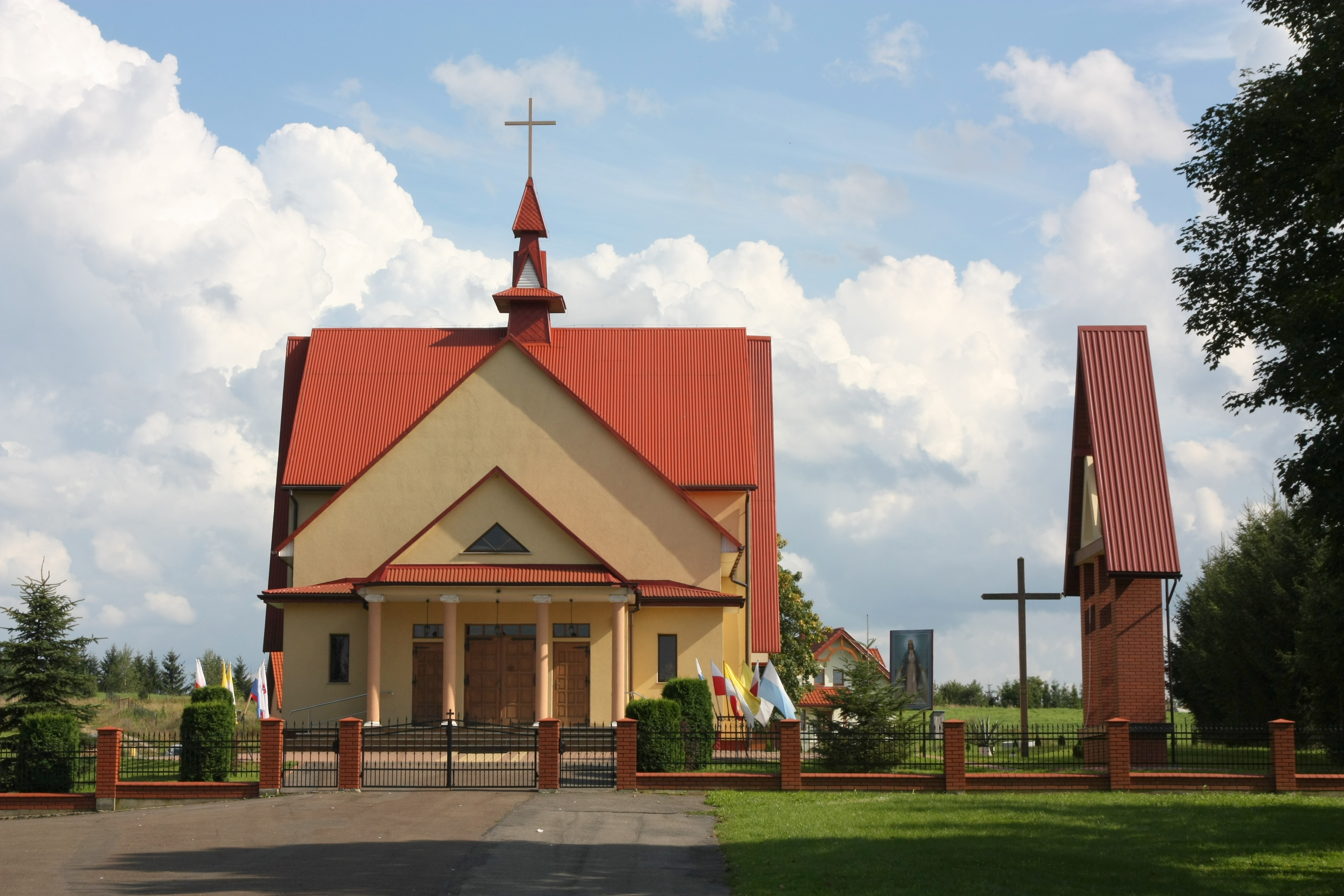 Church of St. Anthony in Czerteż.